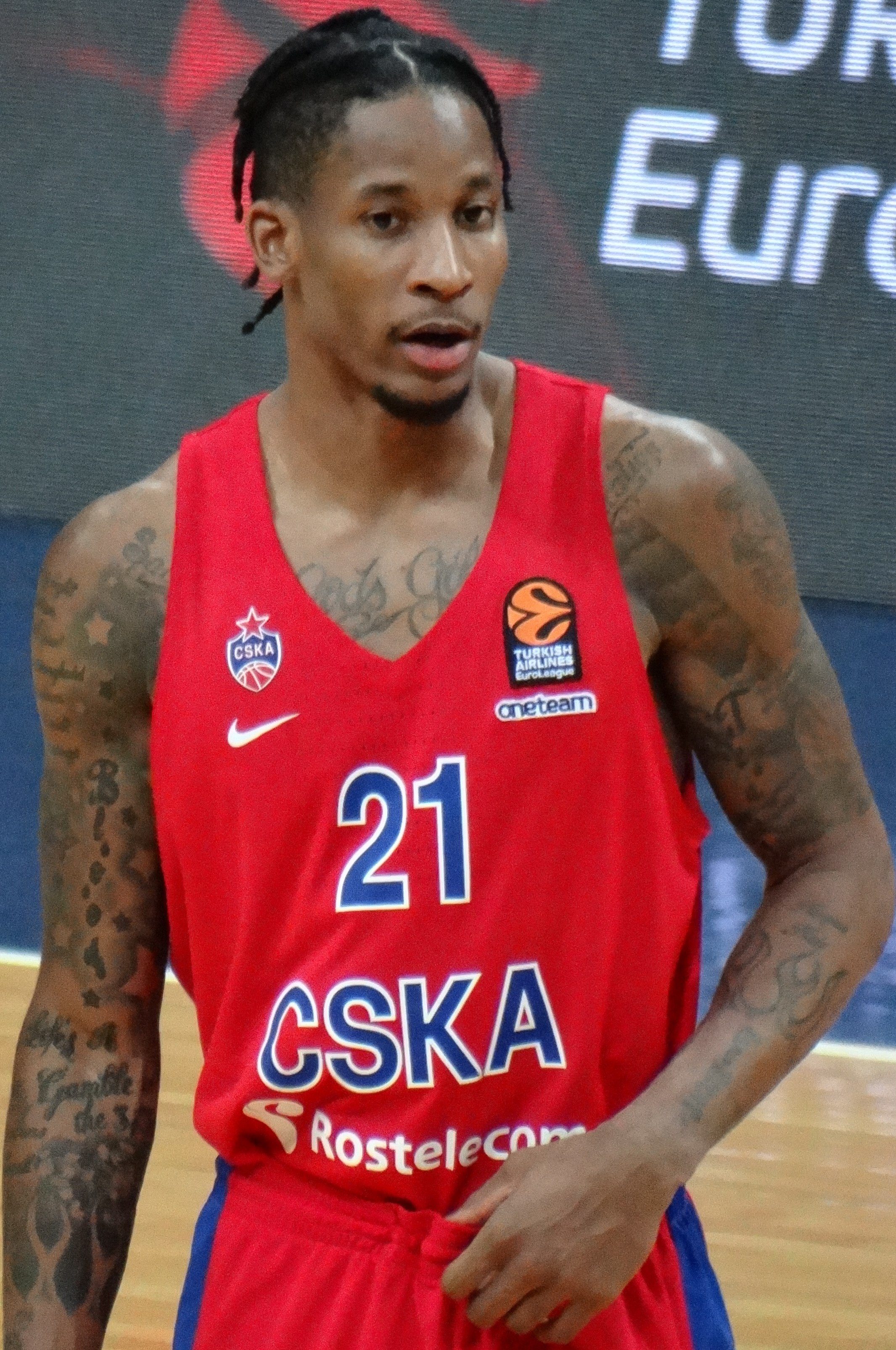 Will Clyburn 21 PBC CSKA Moscow EuroLeague 20180316